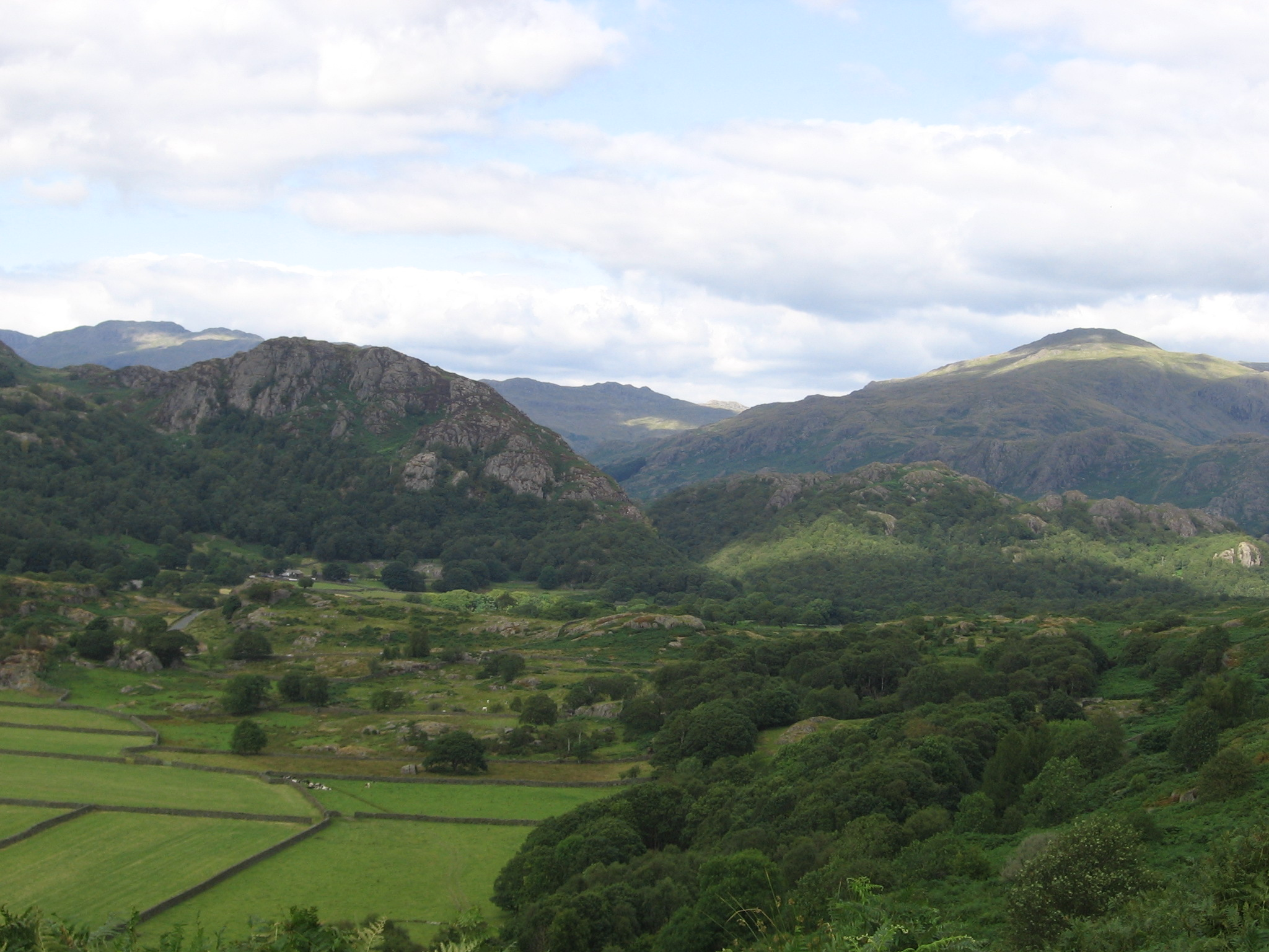 View of the Duddon valley, (also known as Dunnerdale) in the English Lake District near Ulpha facing north, believed to be taken from the lower slopes of Dow Crag looking towards Harter Fell and Eskdale beyond. Copyright Peter Moore, made source myself.